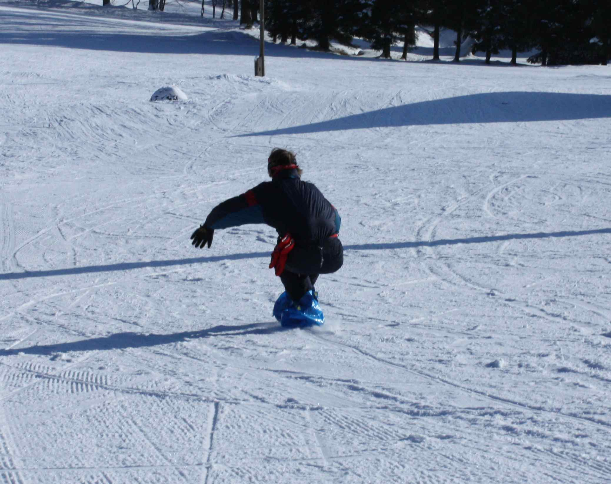 Snowbagging looks like that